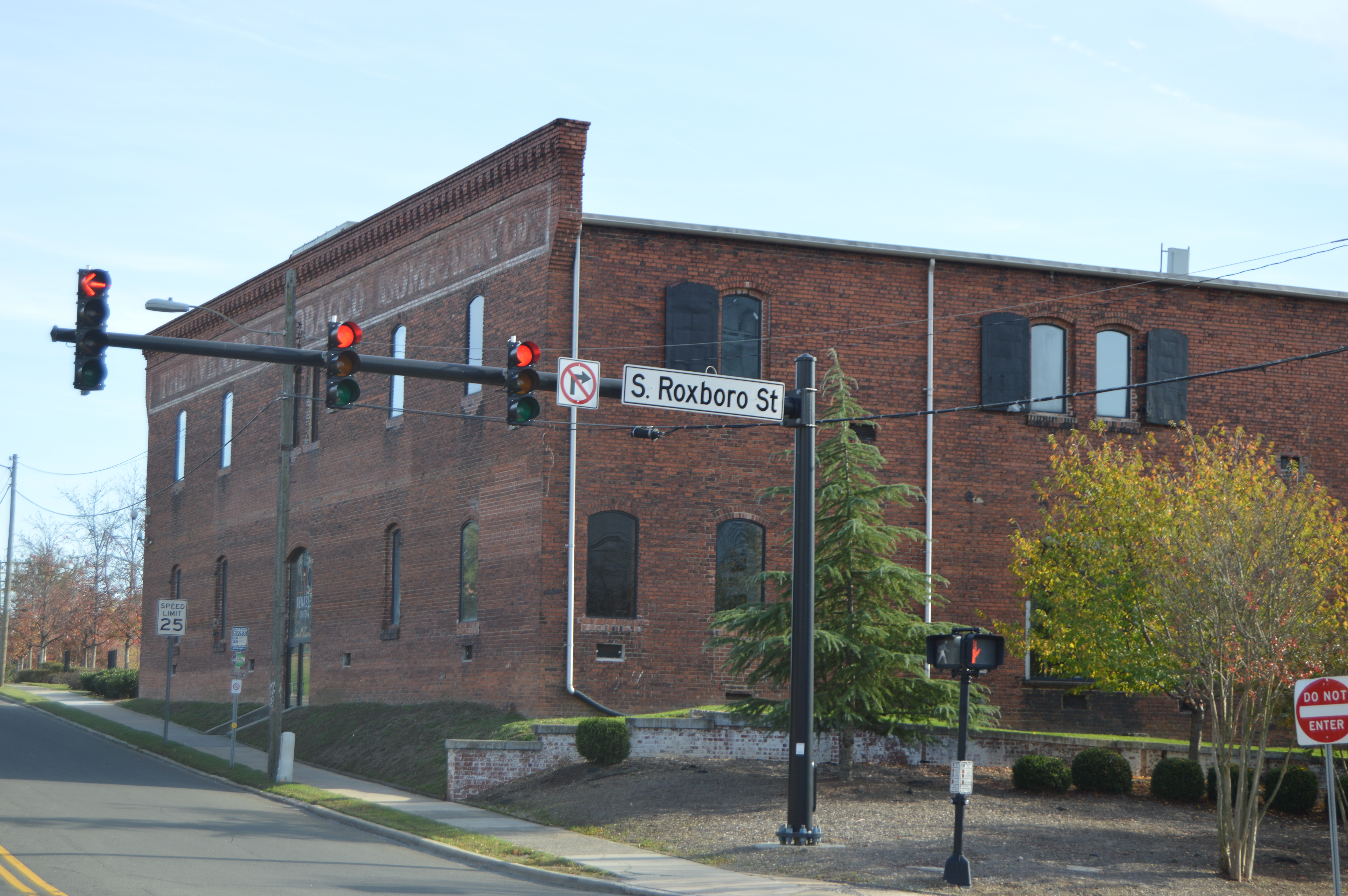 Front and part of the northwestern side of the Venable Tobacco Company Warehouse, located on Pettigrew Street at Roxboro Street in Durham, North Carolina, United States. Built in 1905, it is listed on the National Register of Historic Places.